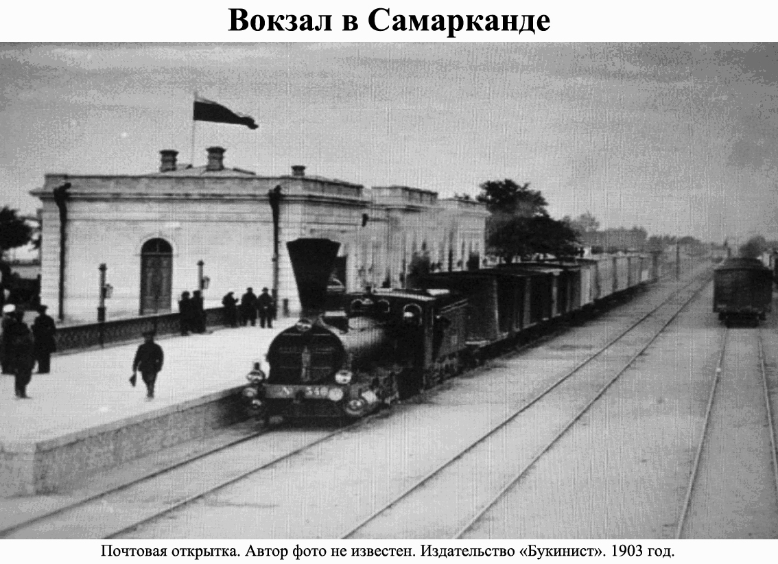 Railway station in Samarkand. Post card. Author photo is unknown. Anonymous publishing. 1903 year.